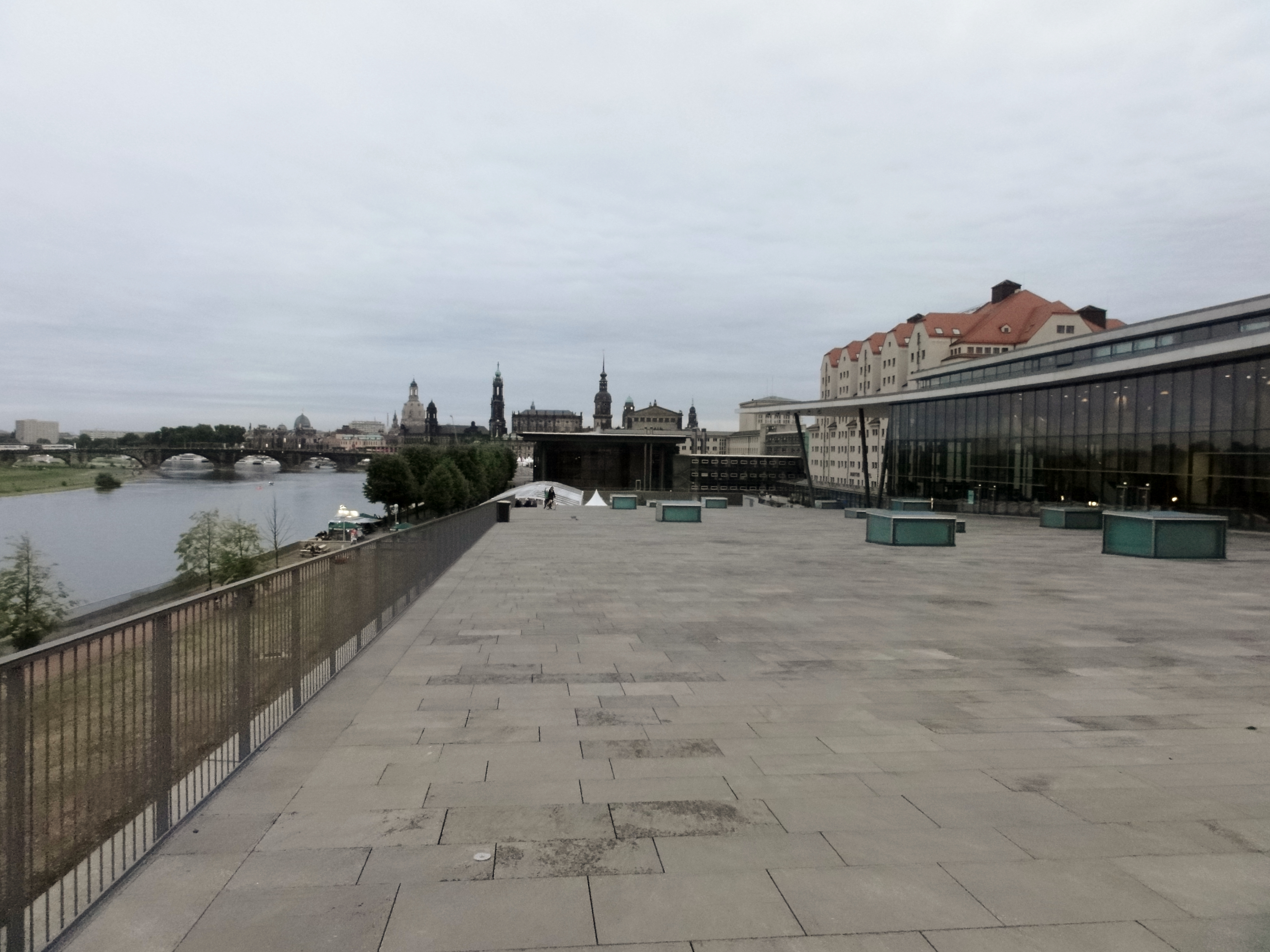 The 33rd church congress in Dresden. Congress Center